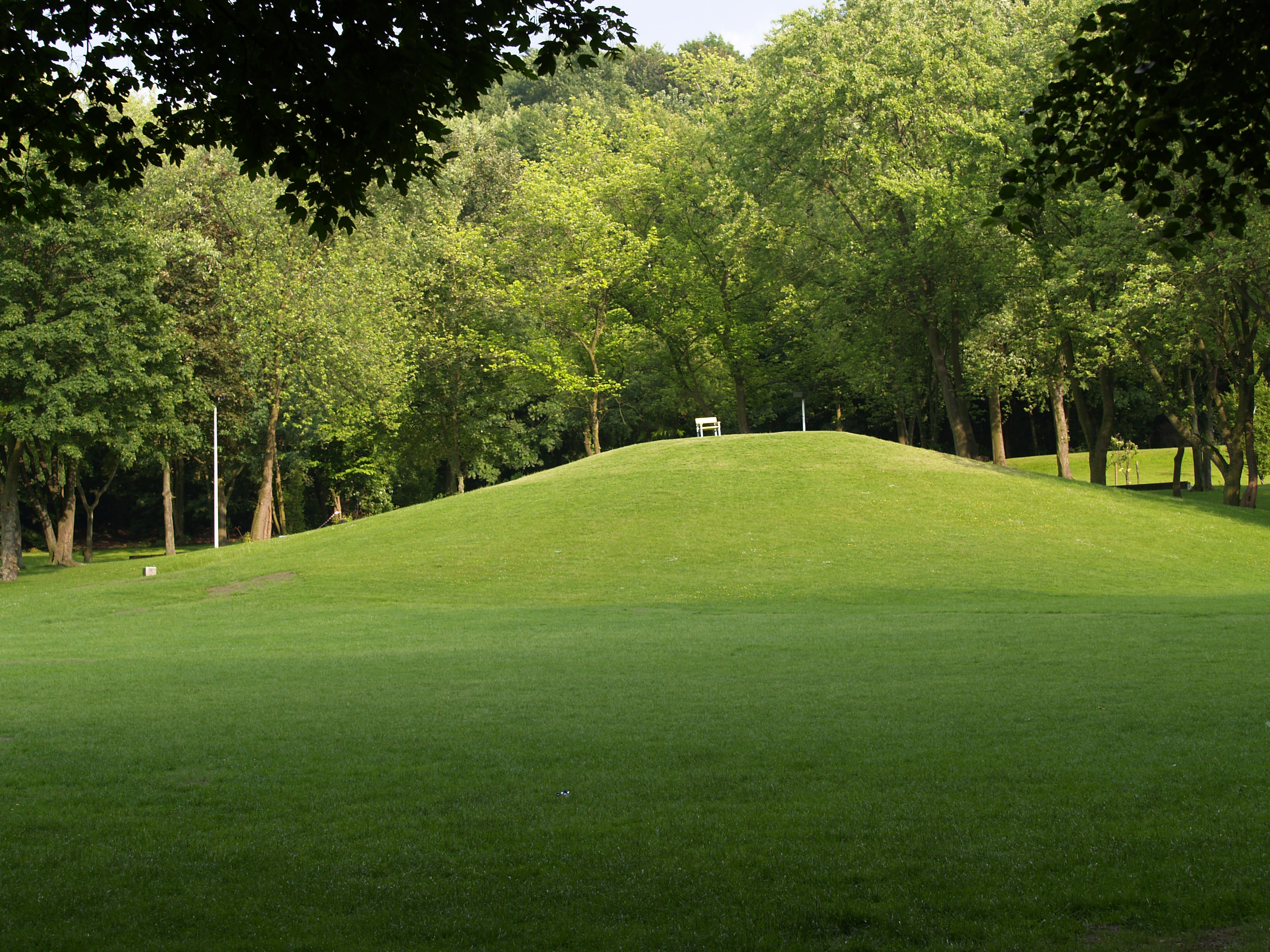 Part of the Gysenberg Park in Herne, Germany